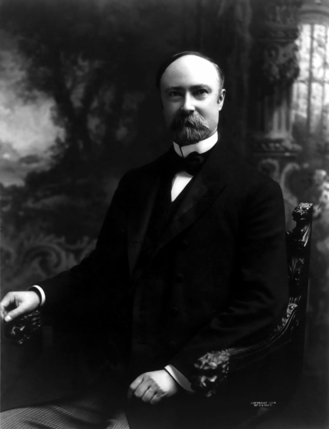 Charles W. Fairbanks, 26th Vice President of the United States.